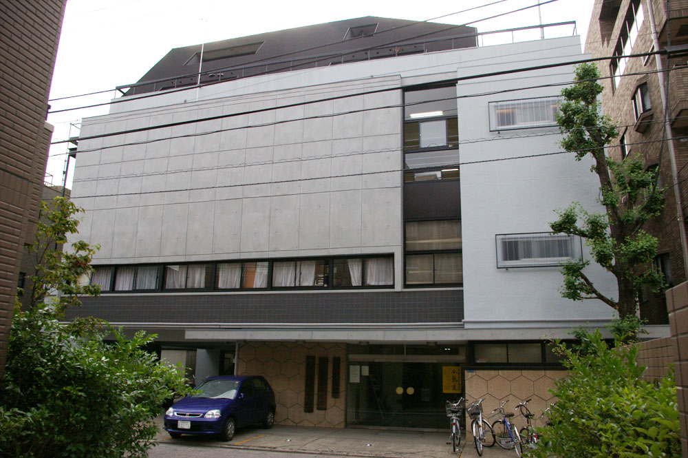 Aikikai Honbu dojo in Tokyo, Japan.